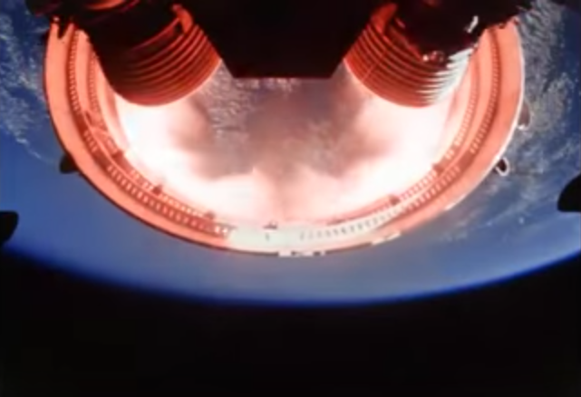 Apollo 4 S-ICS-II Staging upper camera